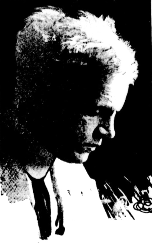 Portrait of Oliver Herford